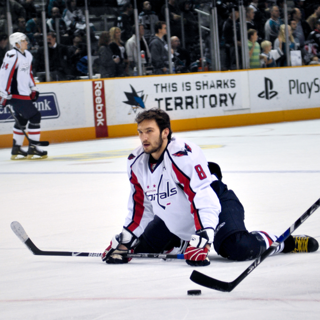 Alexander Ovechkin